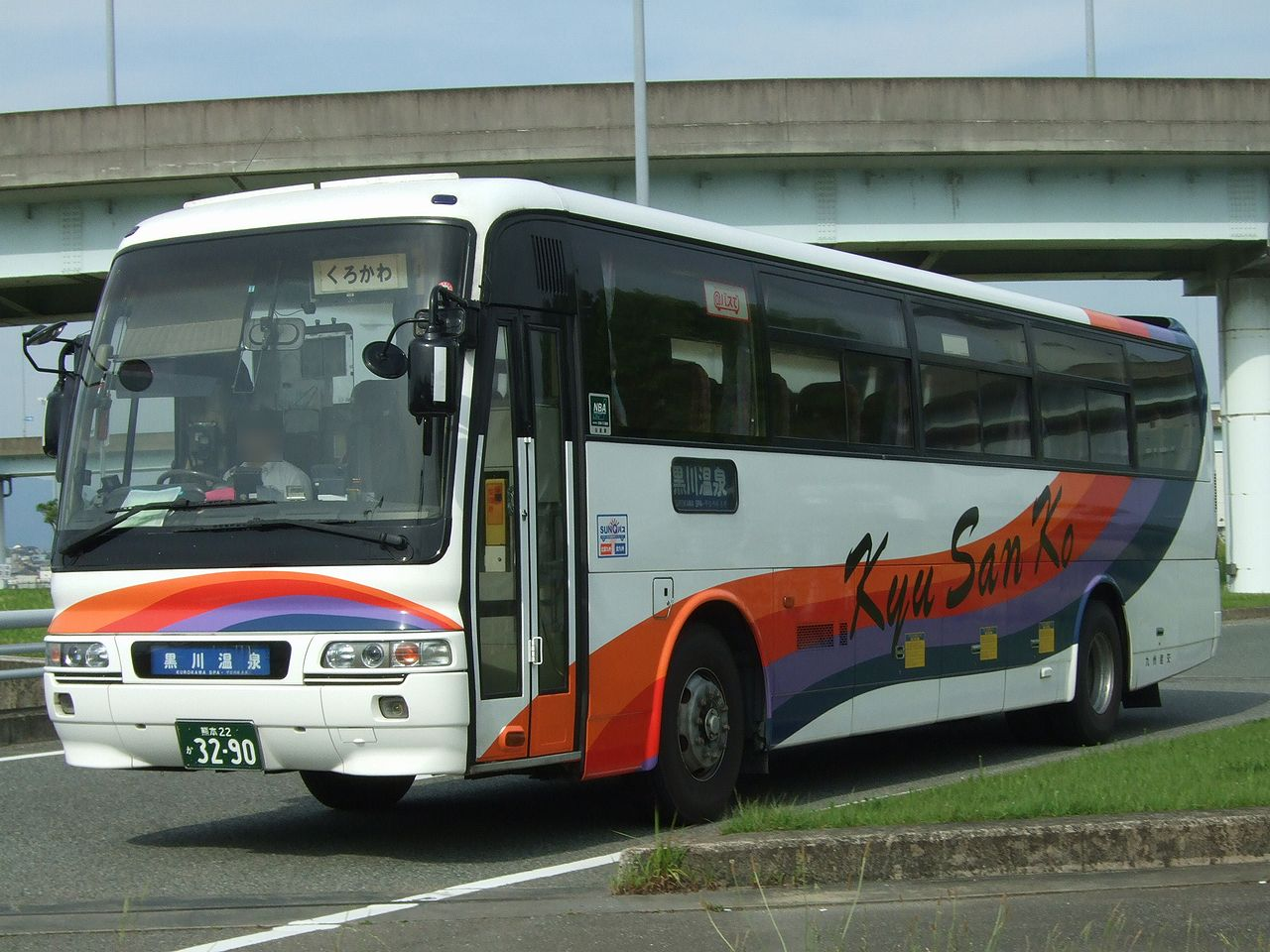 The highway bus operated between Fukuoka and Kurokawa Spa. Company:Kyushu Sanko Bus Use:transit bus (highway bus) Belongs to:Kumamoto depot Car license:KU 22 KA 3290 Chassis manufacturer:Mitsubishi Motors Coachbuilder:Mitsubishi Fuso Bus Manufacturing Location:in Hakata Ward, Fukuoka City, Fukuoka, Japan.